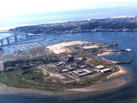 Campus of the Hatfield Marine Science Center in Newport, Oregon, USA Local offices of the - Oregon State University (OSU) - National Oceanic and Atmospheric Administration (NOAA), - U.S. Department of Agriculture, USDA) - Environmental Protection Agency (EPA) - United States Fish and Wildlife Service (USFWS) - Oregon Department of Fish and Wildlife (OSFW)